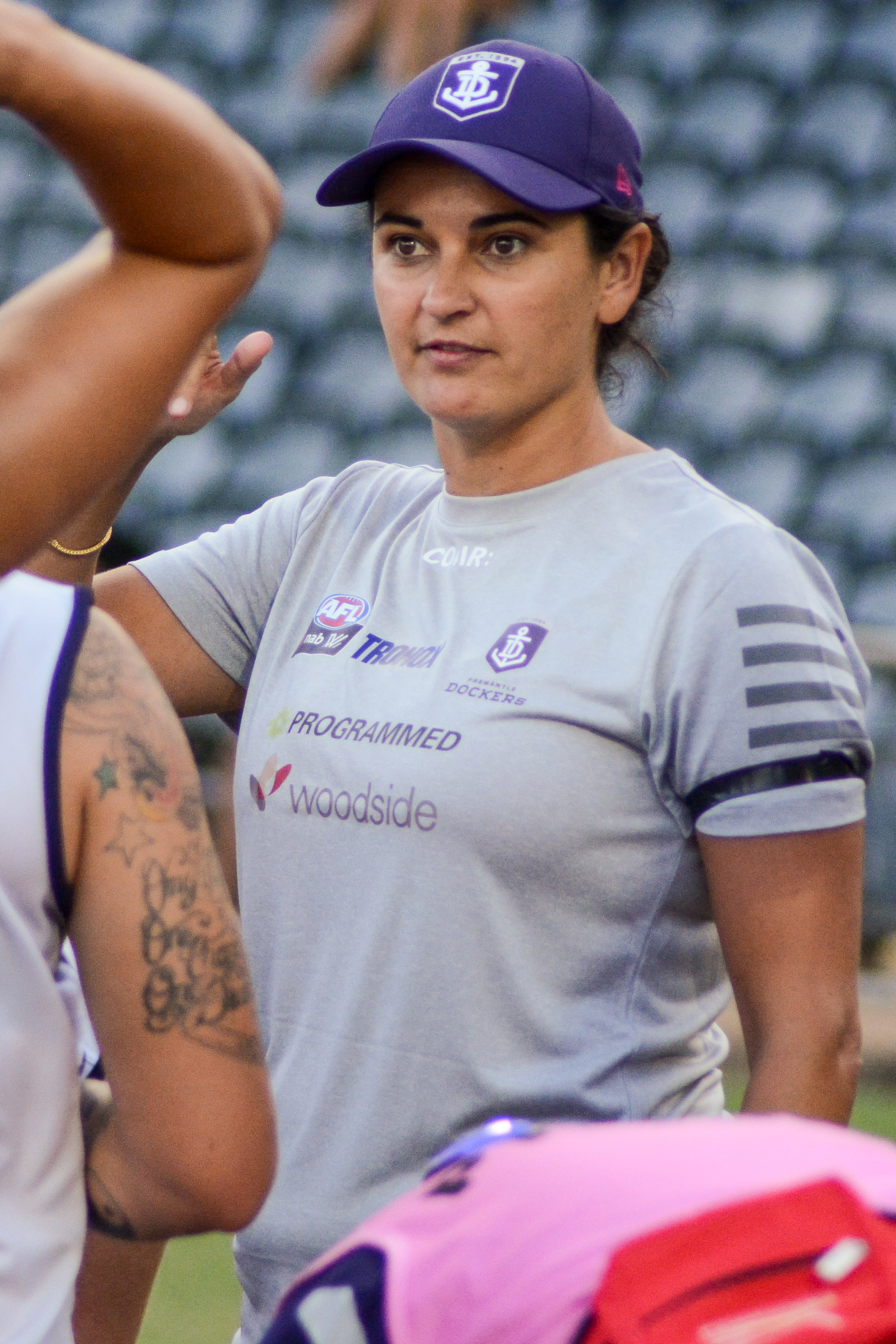 Michelle Cowan addressing the Fremantle AFLW team in January 2017